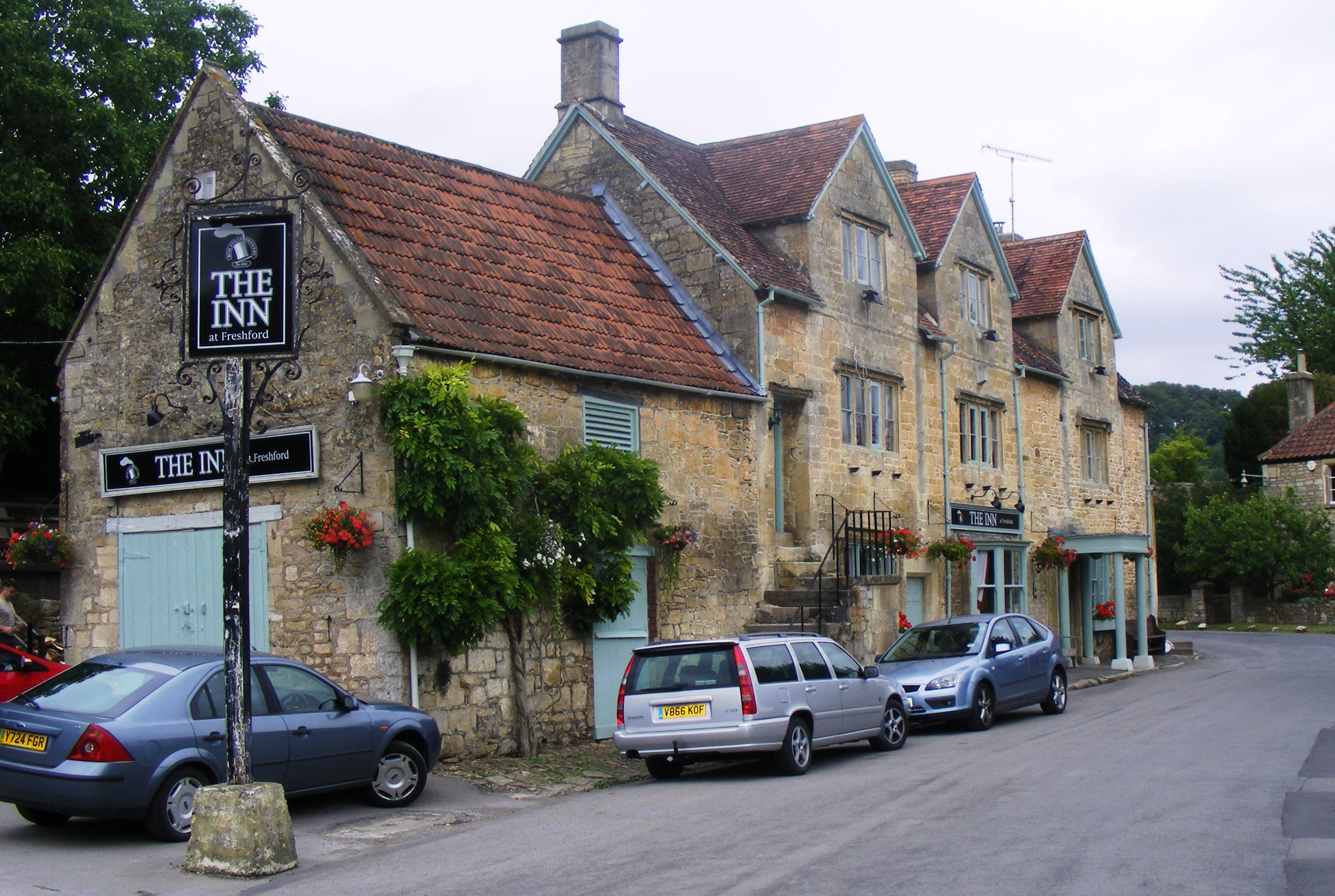 The Inn at Freshford